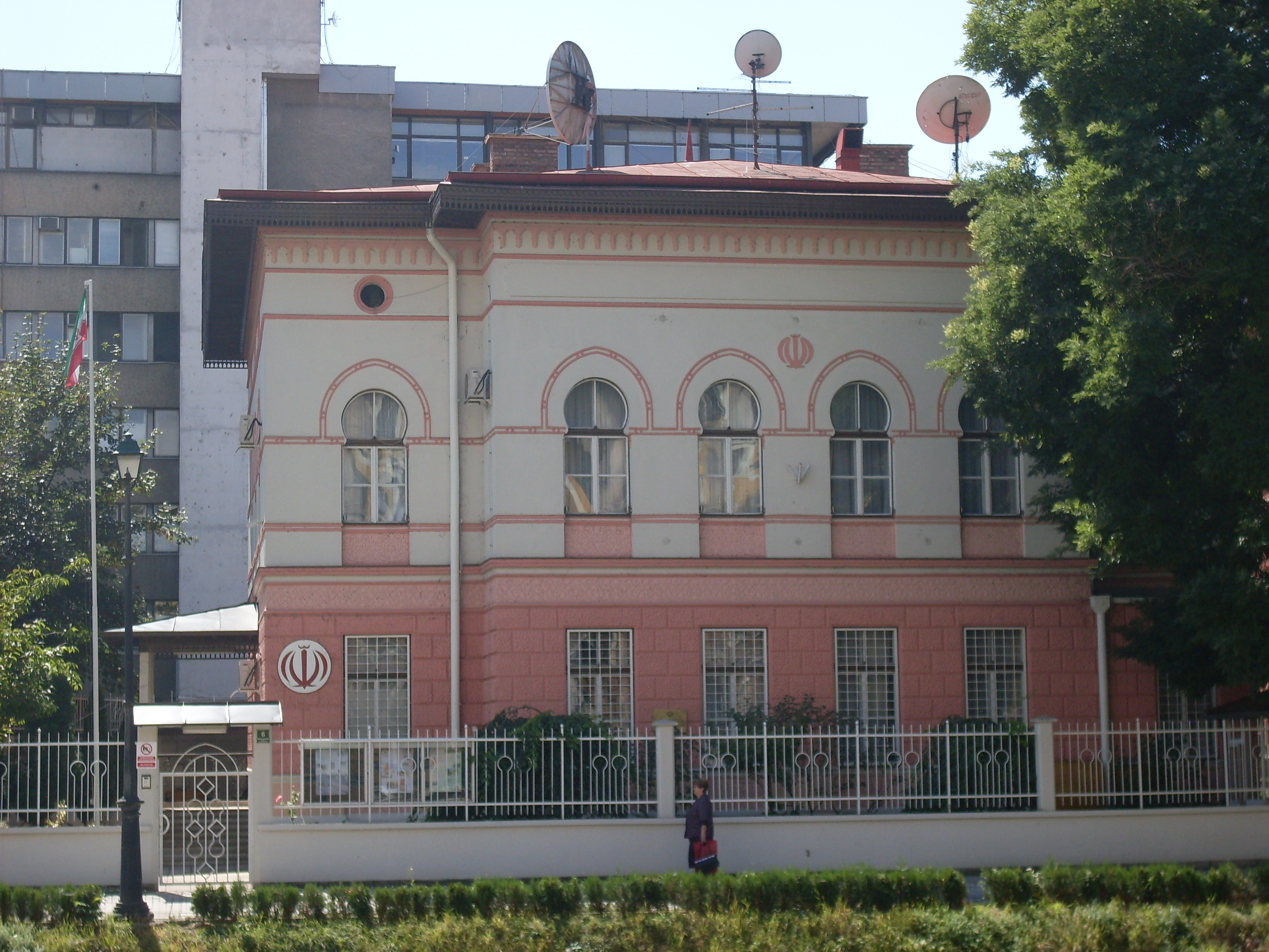 Embassy of Iran in Sarajevo. Building designed by Niemeczek in 1895